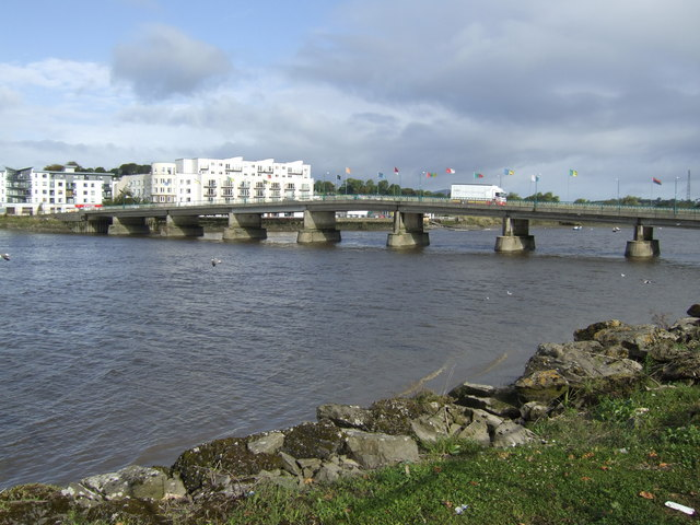 The Barrow Bridge, New Ross A tidal river some twenty miles from the open sea, this is the lowest crossing point on the river and hence the reason for the importance of the town. The community on the far side of the river is Rosbercon.